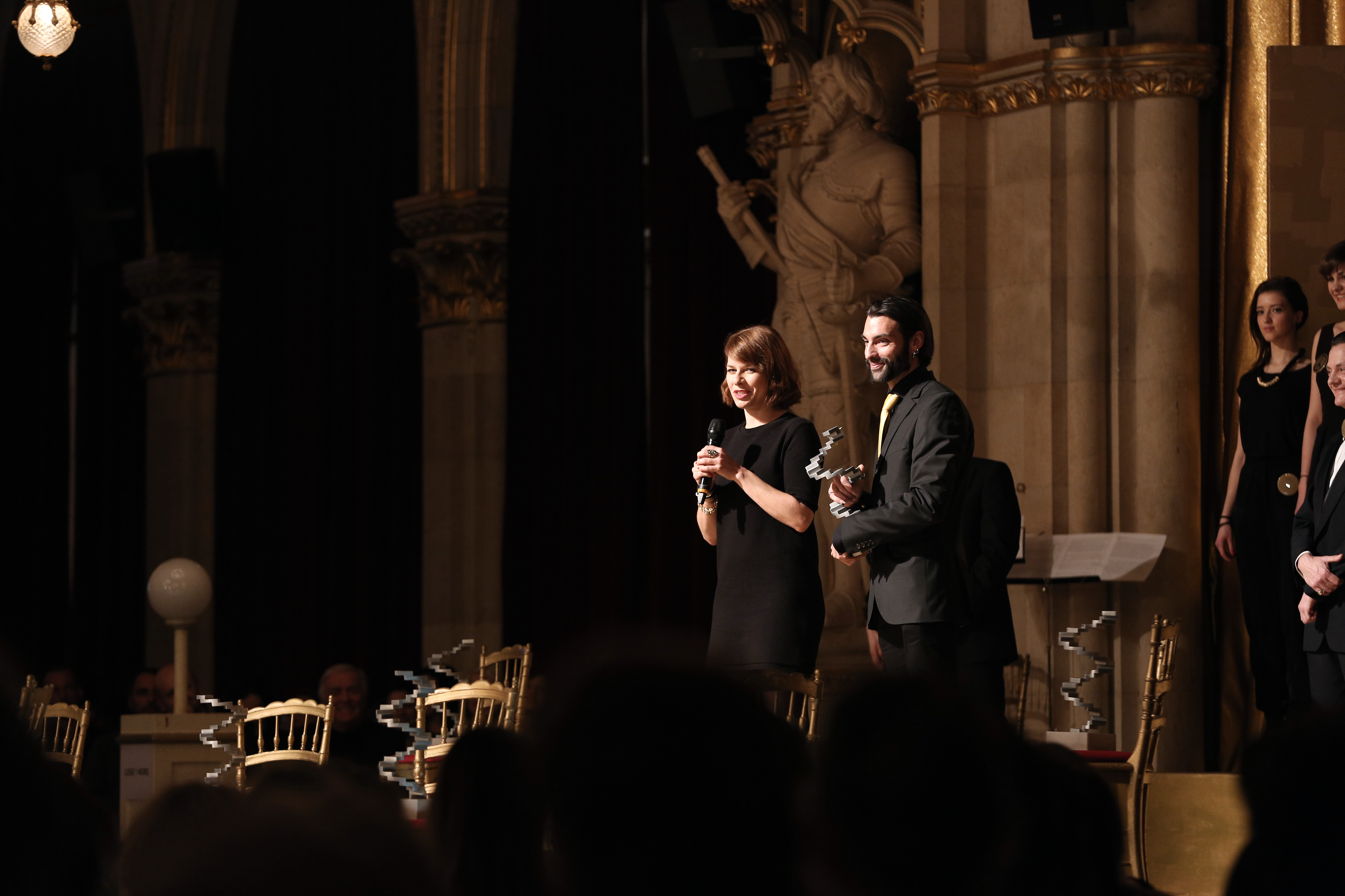 Helene Lang and Roman Braunhofer (best theatrical makeup for The Dark Valley) at the Austrian Film Awards 2015 at Rathaus, Vienna,Austria.